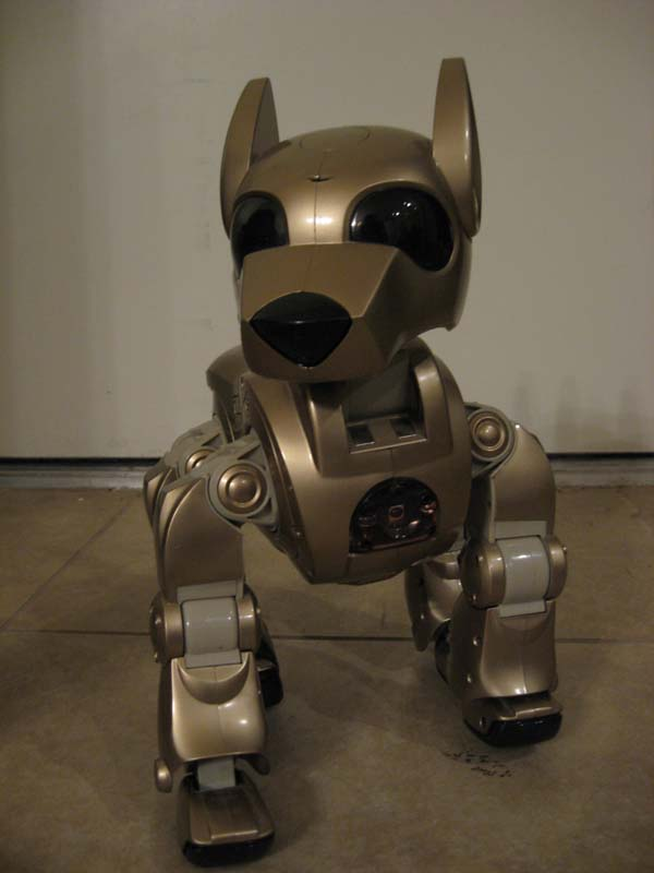 Picture of the i-Cybie robot dog.